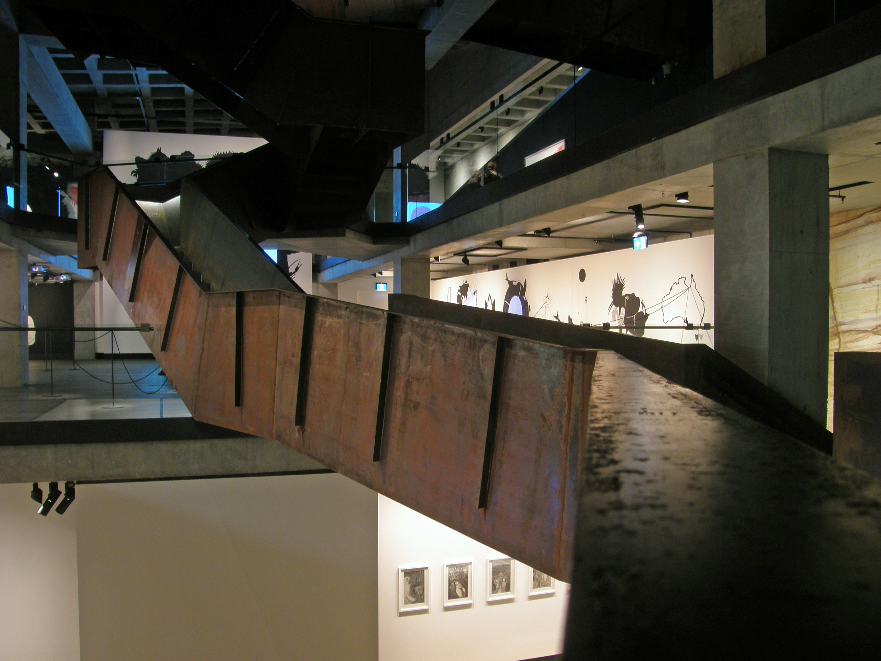 Staircase at Mona.